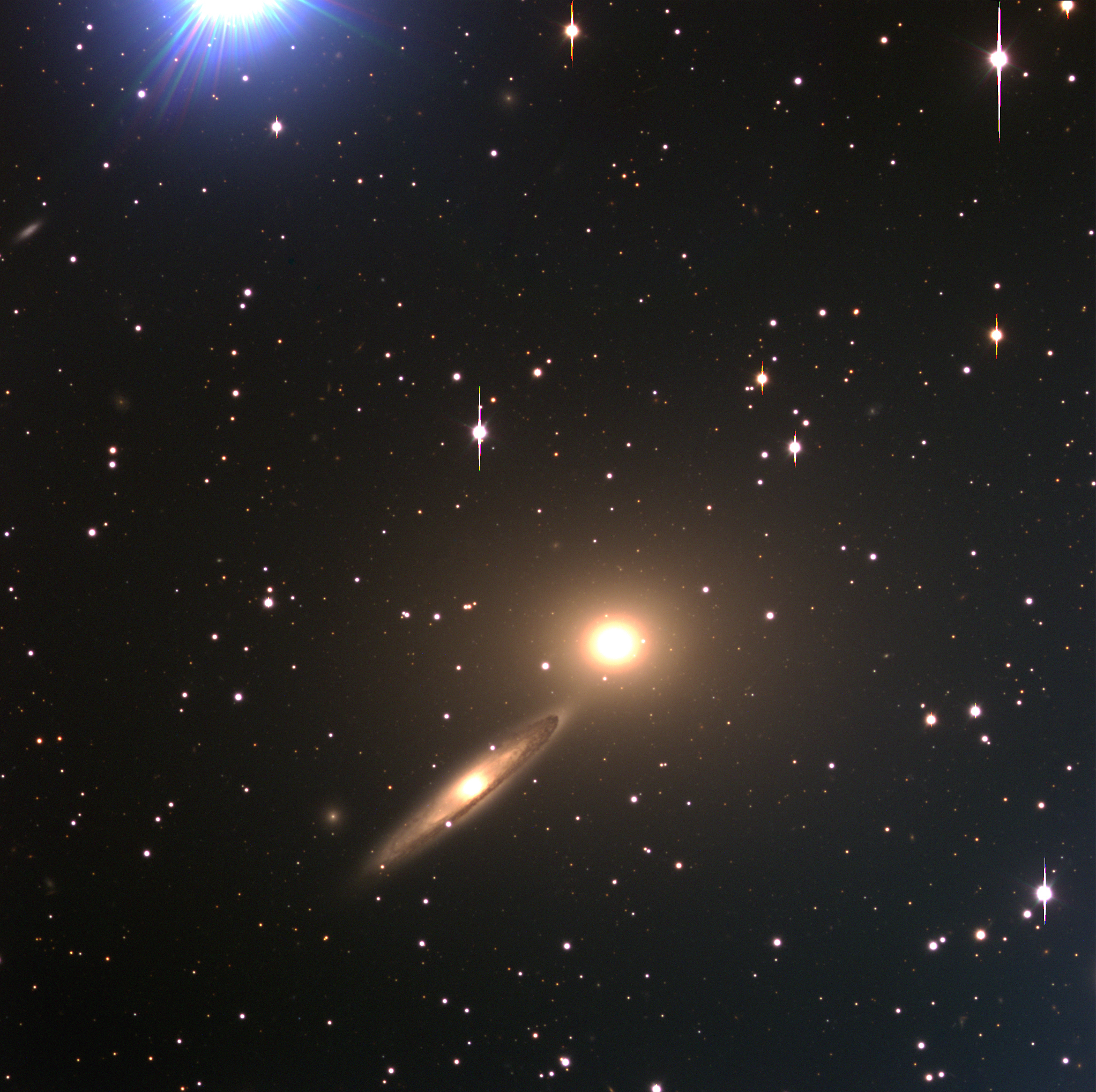 A pair of galaxies NGC 5090 - 5091 in Centaurus is shown in this image. They are located at about the same distance as ESO 269-57 and may belong to the same cluster of galaxies. This is an interacting elliptical-spiral system with some evidence of tidal disruption of NGC 5091 (to the left; seen under a steep angle) by NGC 5090 (to the right). The velocity of the nucleus of NGC 5091 has been measured as 3429 km/sec, while NGC 5090 has a velocity of 3185 km/sec. NGC 5090 is associated with a strong, double radio source (PKS 1318-43). This three-colour composite (BVR) was obtained with VLT UT1/ANTU and its FORS1 instrument in the morning of March 29, 1999. A bright star in the Milky Way, just outside the field at the upper left, has produced a pattern of blue straylight. The field size is 6.8x6.8 arcmin 2. North is up and East is to the left.